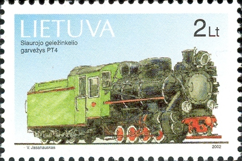 Stamps of Lithuania, 2002